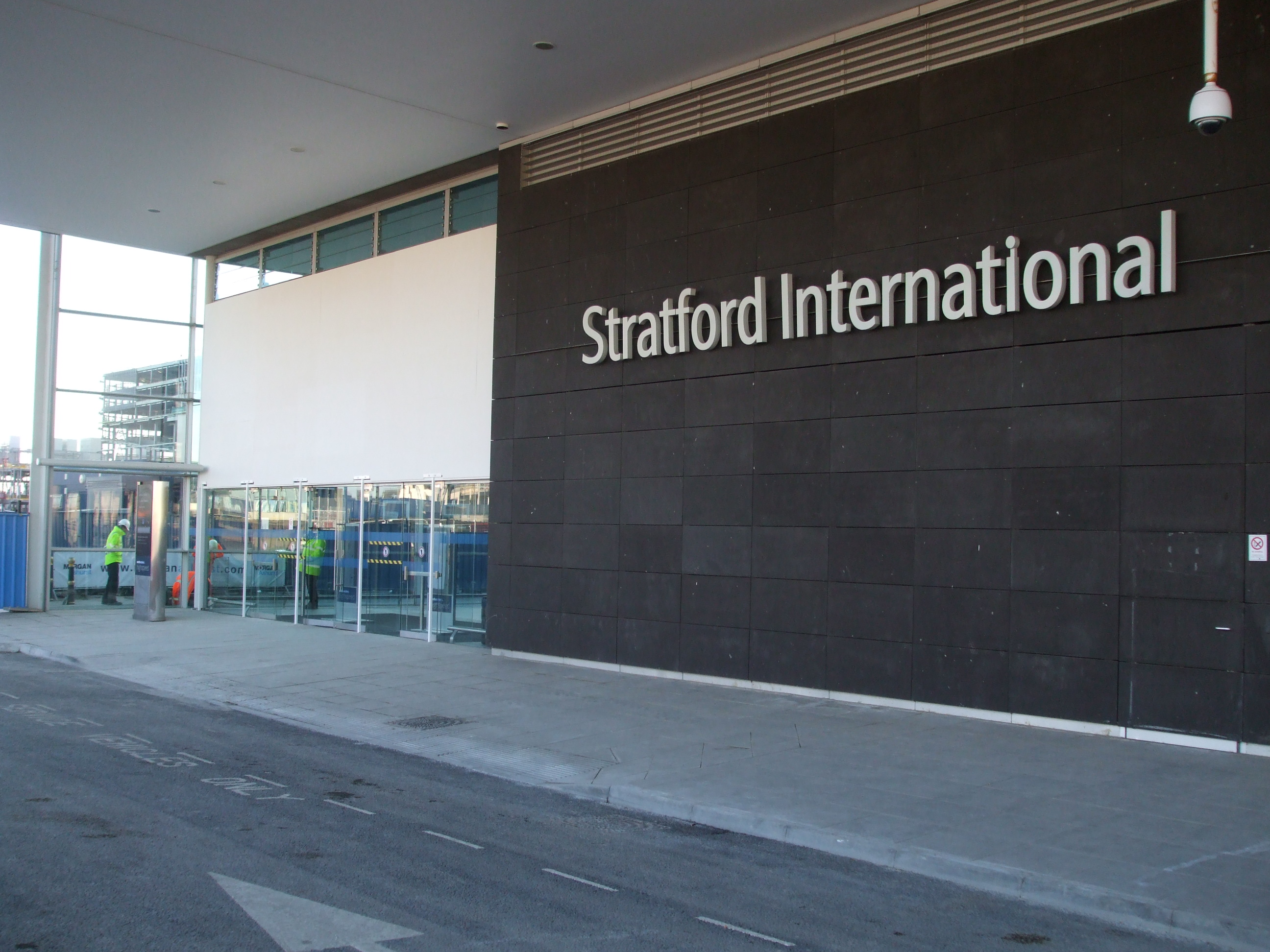 Stratford International station entrance, a few days after opening for (initial) Southeastern High-Speed domestic services.